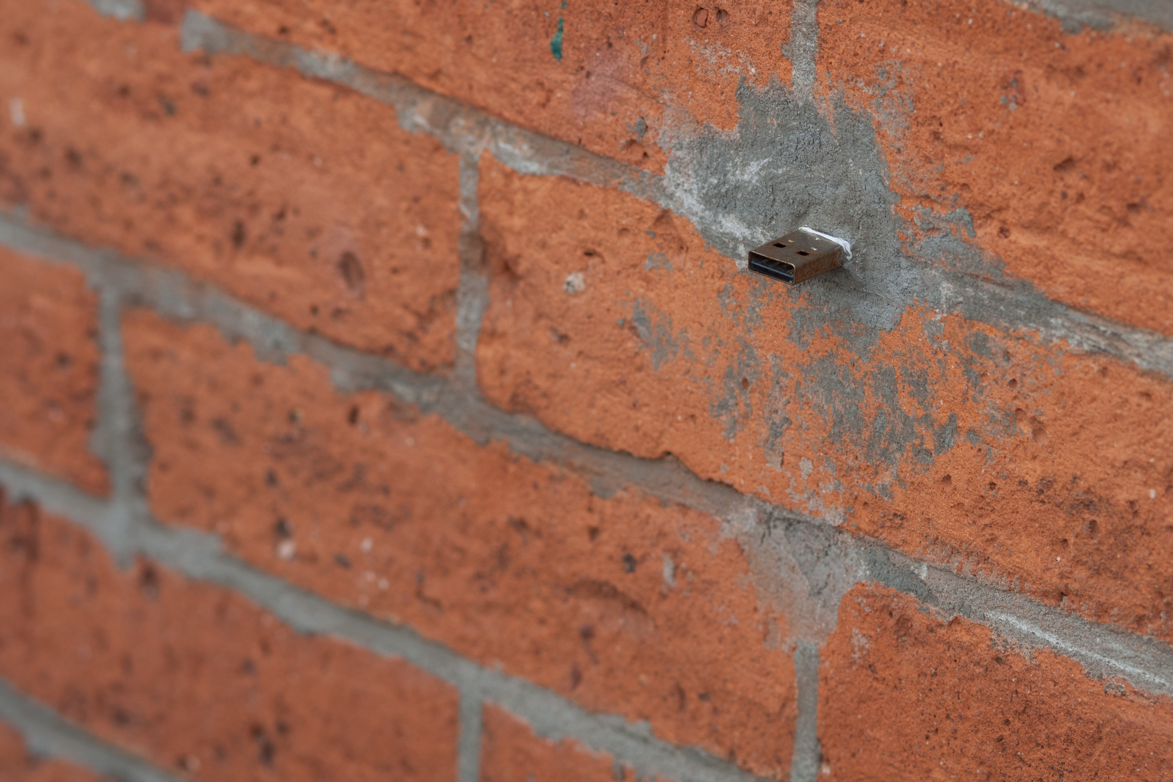 A USB dead drop embedded in the brick work outside of NYC Resistor and Makerbot in Brooklyn.